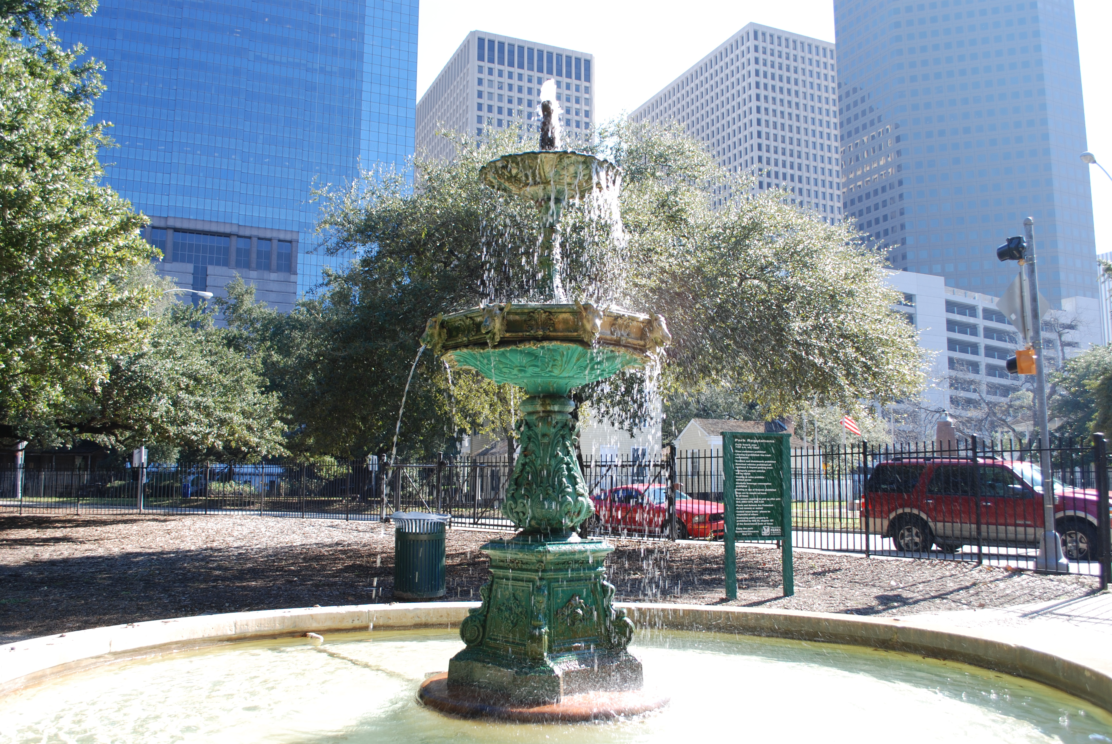 The Scanlan Fountain in Sam Houston Park in Houston. The pool of the fountain is concrete and approximately 30” tall and the fountain is approximately 12 feet tall. The finish is waterproof green paint, which was the original color of the fountain. There is decorative elements throughout the cast form. Most notable are the series of goats on the perimeter of the second basin. The water pours from the spouts in their mouths into the bottom pool. It was built in 1891 by J. L. Mott Iron Works, and was restored in 1999. It originally belonged to Houston Mayor Thomas H. Scanlan.